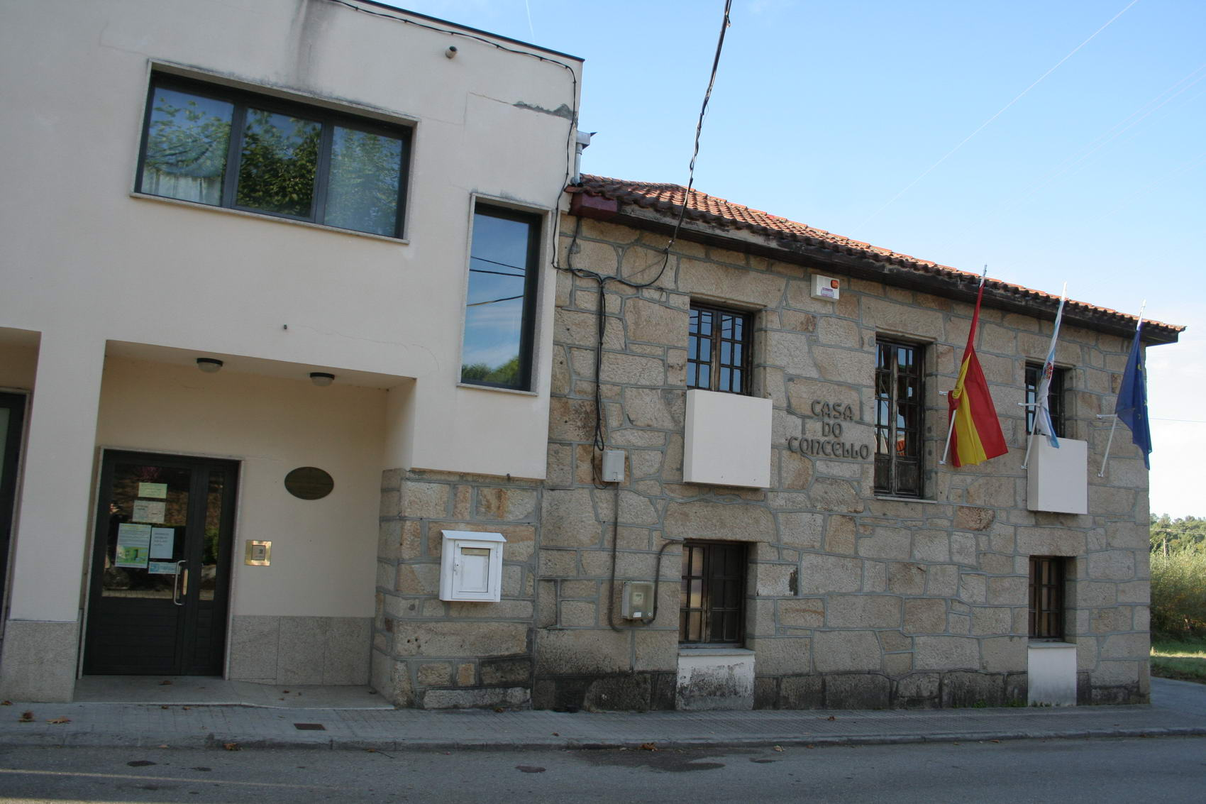 Town Hall in A Bola (Spain)